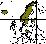 Countries in gold are where the crown (or similar) is the official currency.